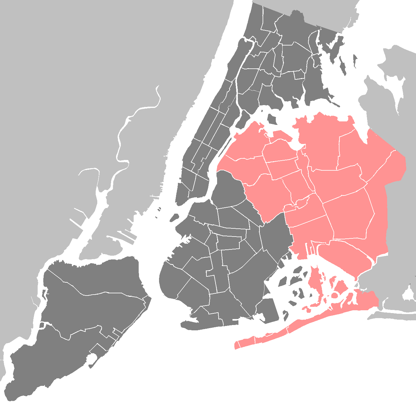 Category:Maps of New York City: New York City - Queens.PNG